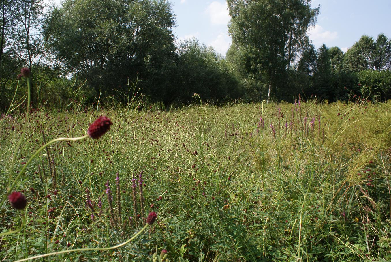 jedno z siedlisk modraszka nausitousa w południowej części Polski